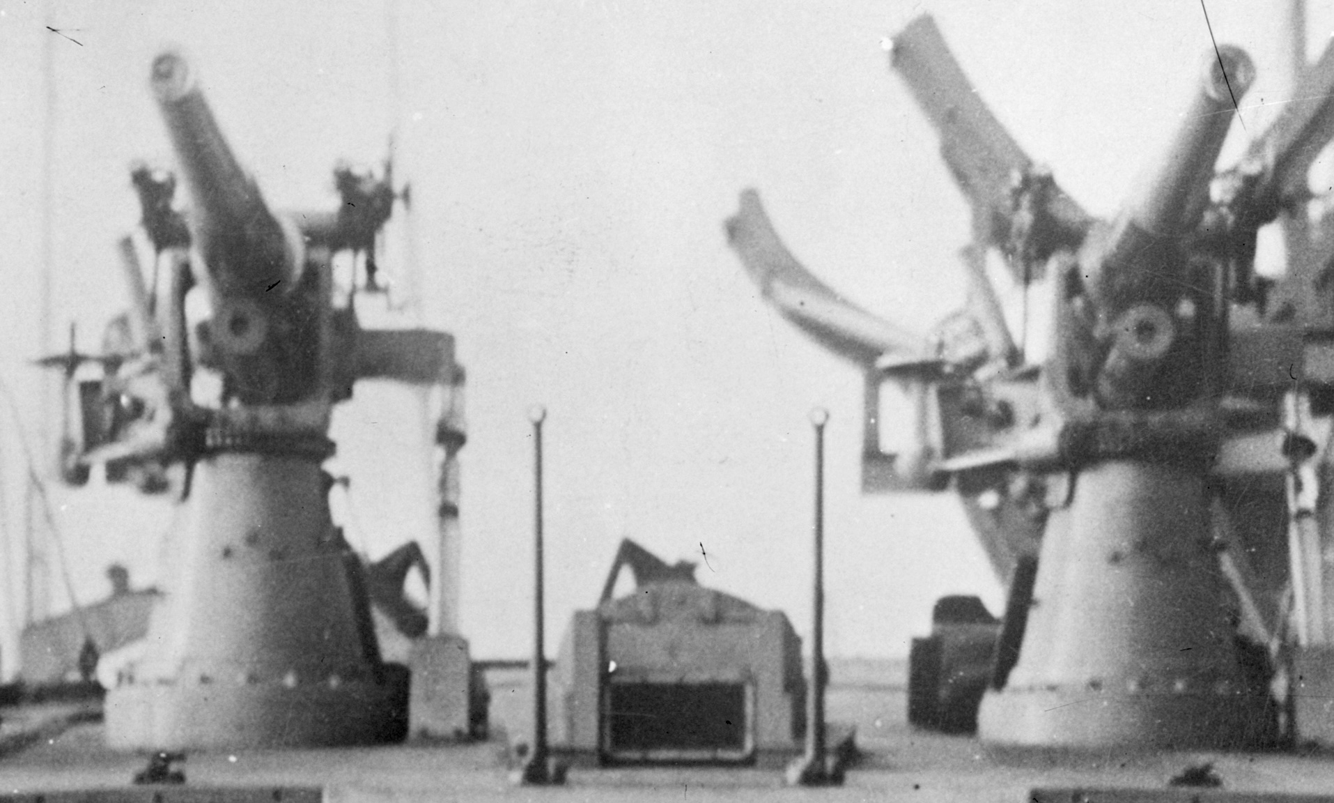 Photograph showing front view of 2 QF 12 pounder 18 cwt guns on the roof of a turret of British battleship HMS Dreadnought. This is a clipped section of Image:HMSDreadnought gunsLOCBain17494.jpg